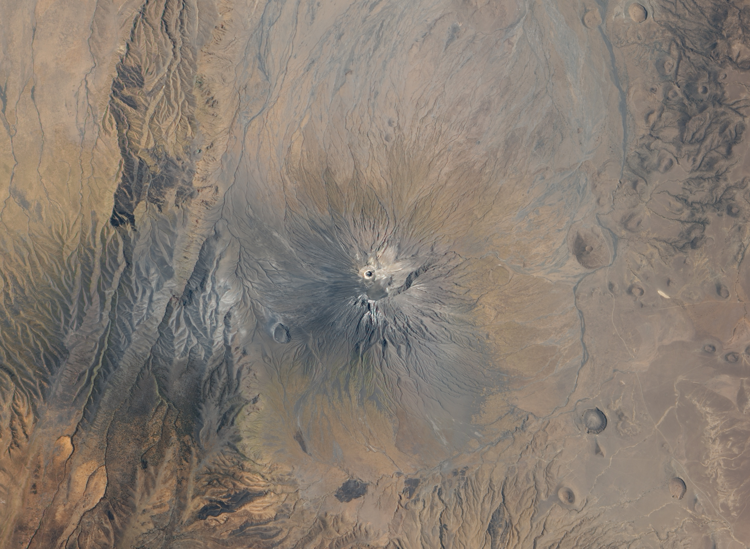 After explosive eruptions, ash covers the surrounding landscape. The explosive eruptions built a cone over 100 meters high that enclosed a steep-walled crater. The new cone and crater are clearly visible in the centre of the image. The dark spot in the crater may be fresh lava erupted from a new volcanic vent. Gray ash covers the volcano and much of the surrounding landscape.